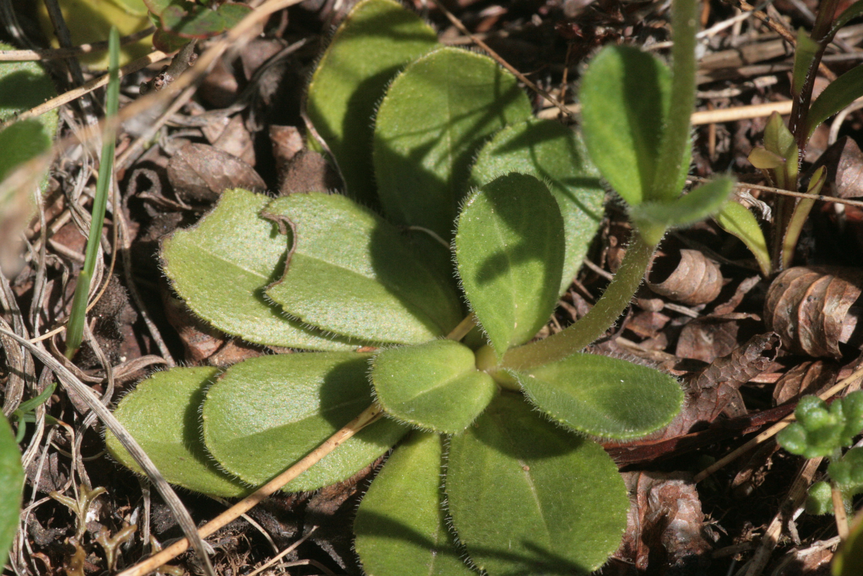 Veronica bellidioides